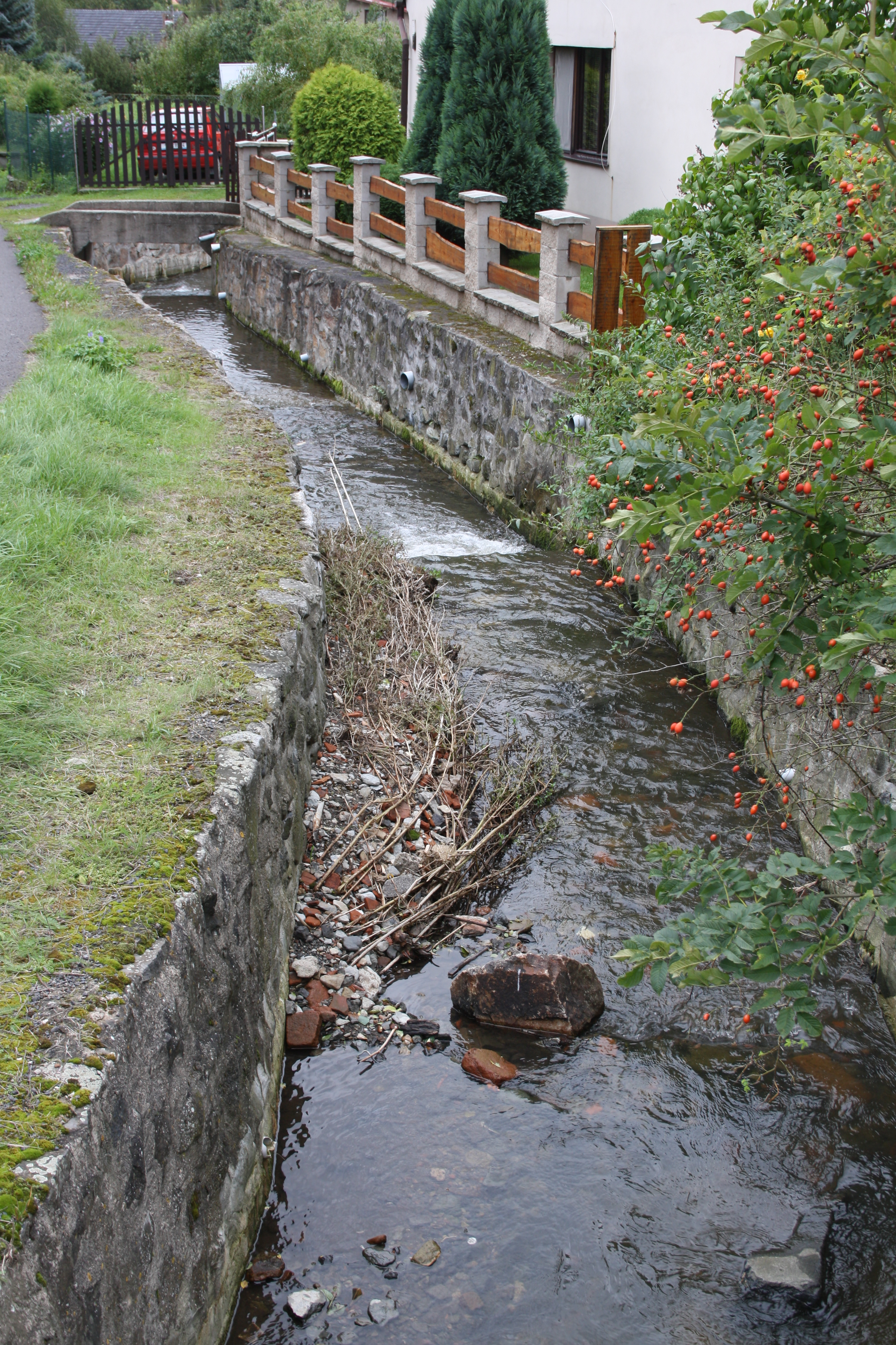 Milešovský potok run in Milešov, Litoměřice District, Czech Republic.